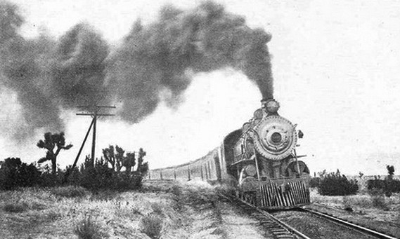 Photo of the Union Pacific train The Los Angeles Limited from the book Westward the Course of the Empire.